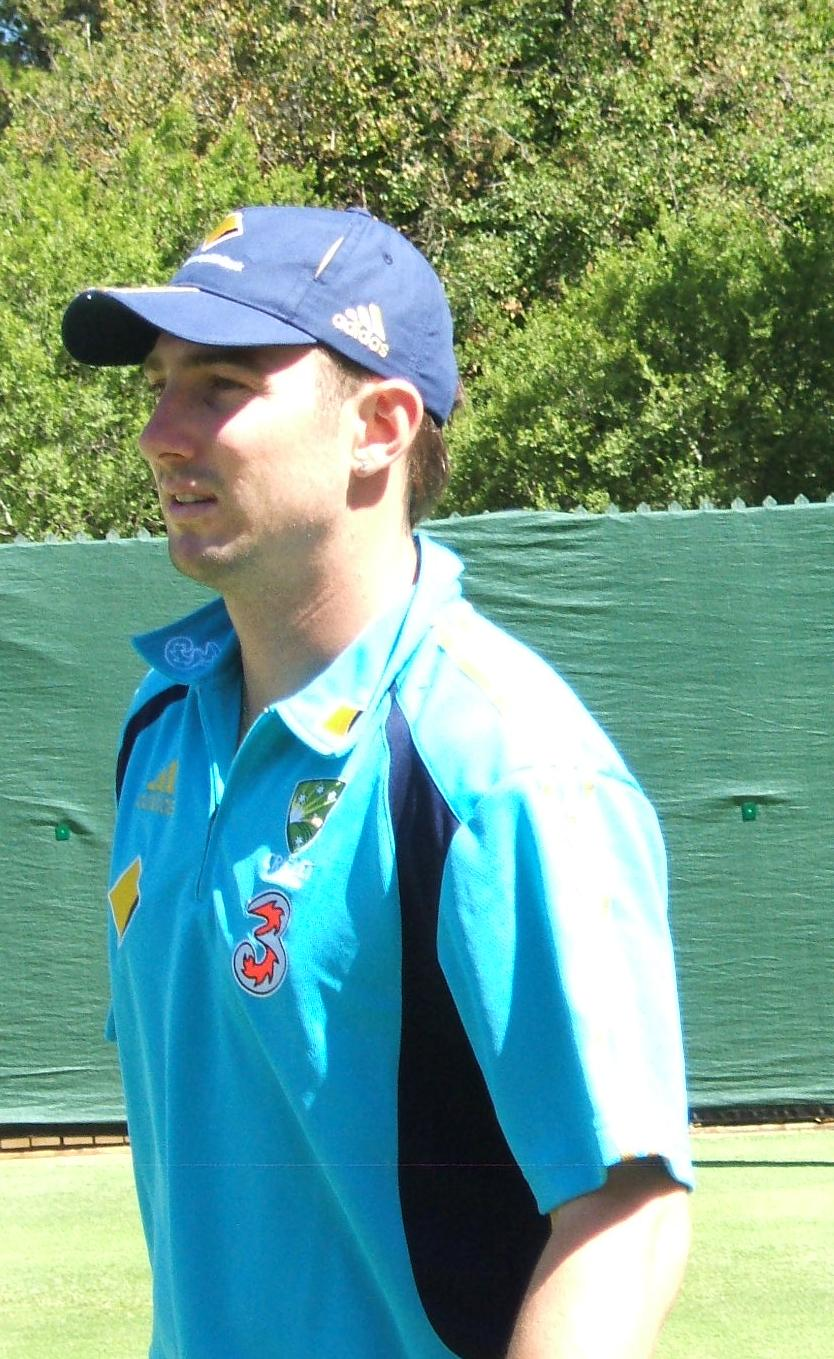 Shaun Marsh at a training session at the Adelaide Oval